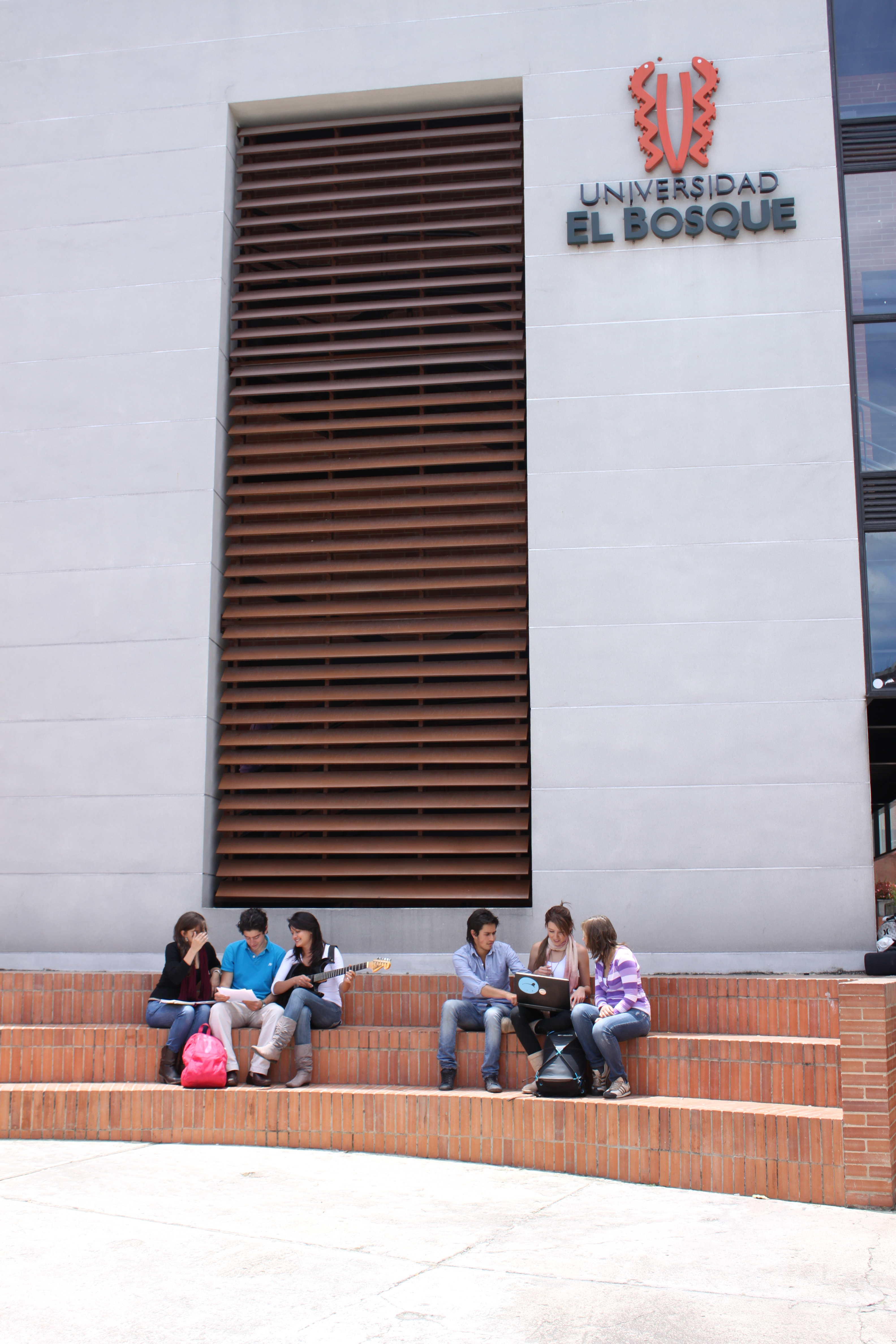 Campus